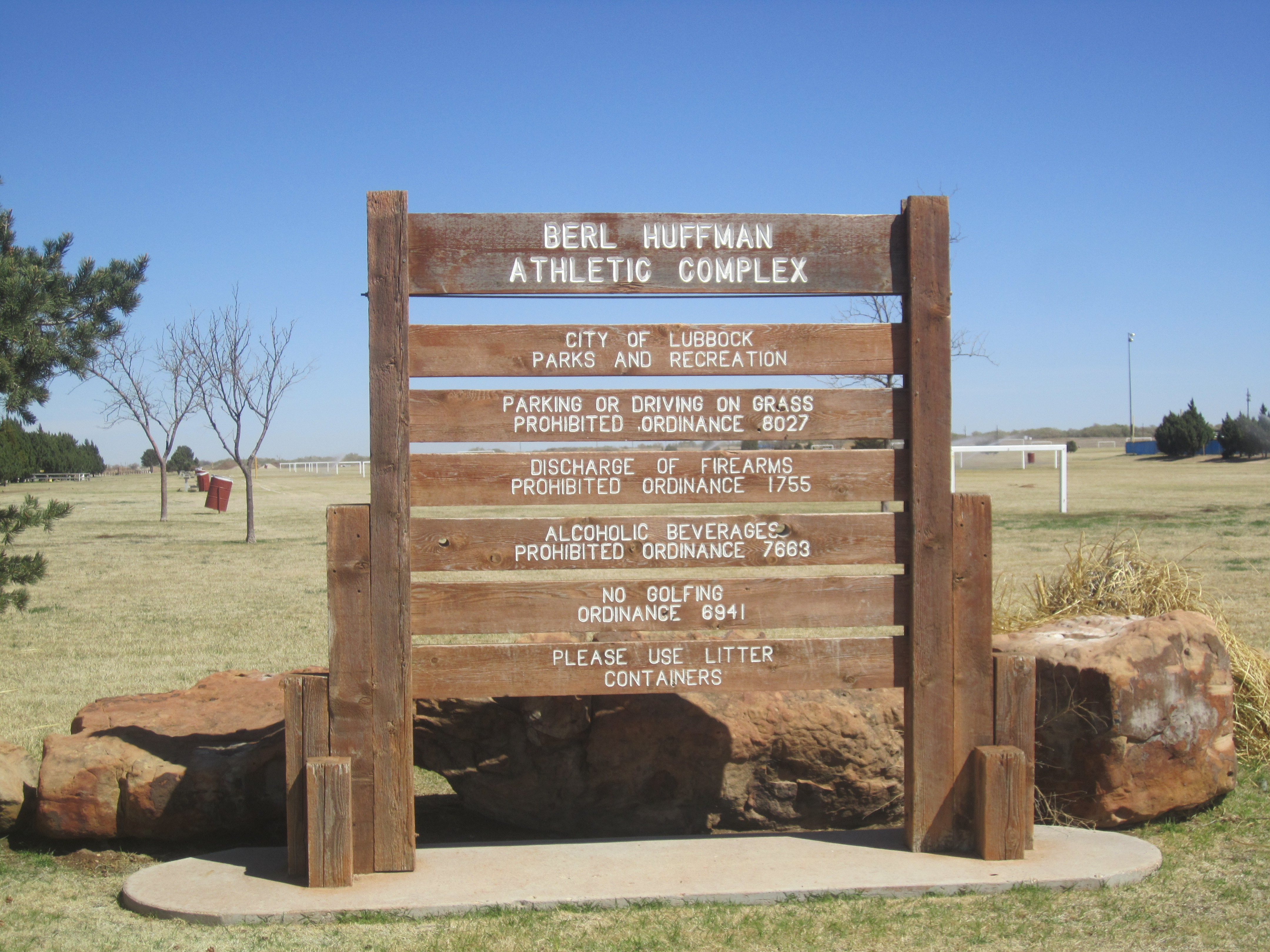 I took photo in Lubbock, TX, with Canon camera.